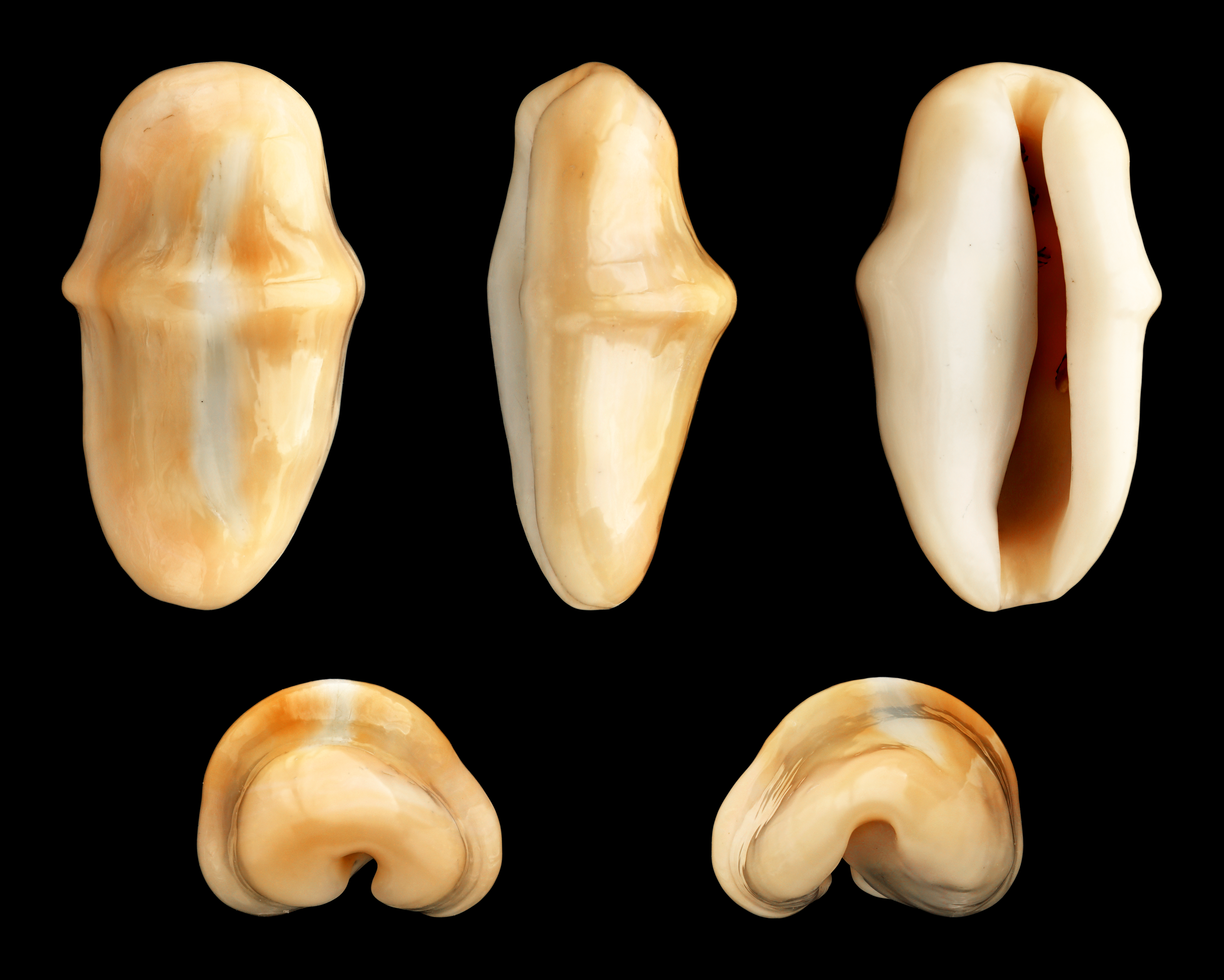 Flamingo Tongue Snail; Length 2.7 cm; Originating from the Caribbean; Shell of own collection, therefore not geocoded. Dorsal, lateral (right side), ventral, back, and front view.